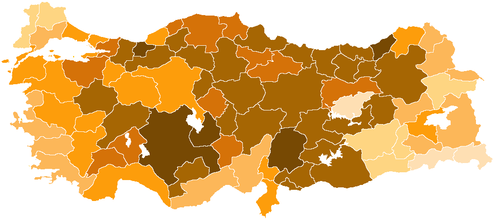 Justice and Development Party performance in the Turkish general election, November 2015